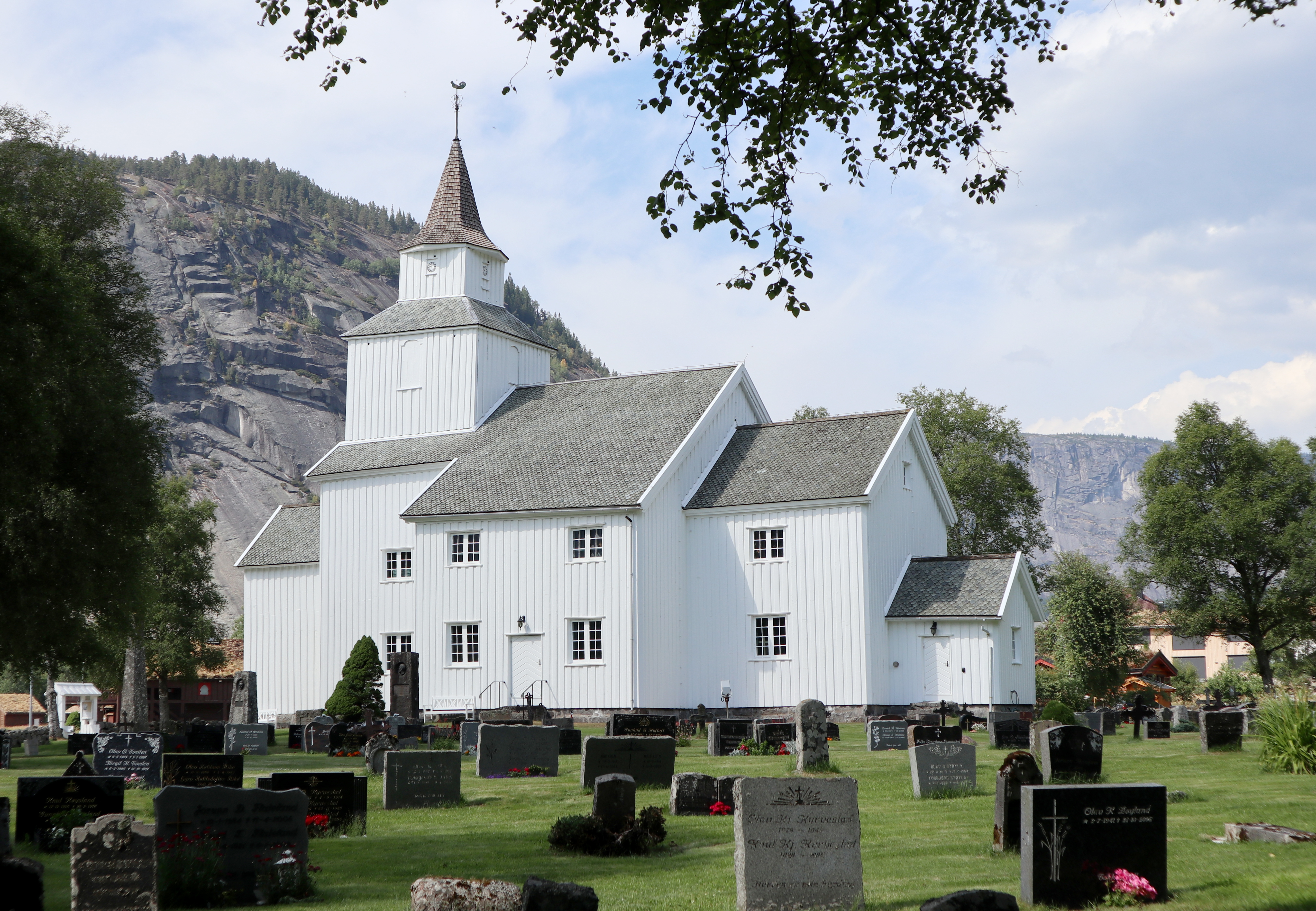 Valle Kirke i Setesdal